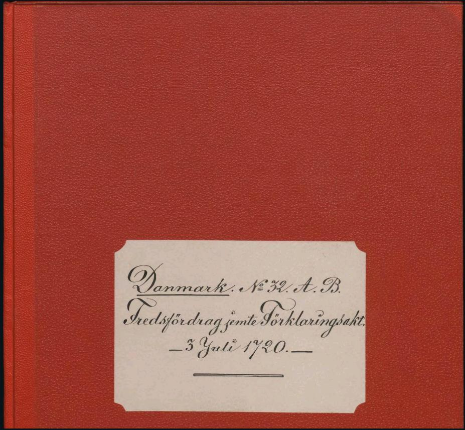 Front page of the latest and current peace treaty between Denmark and Sweden, Swedish version